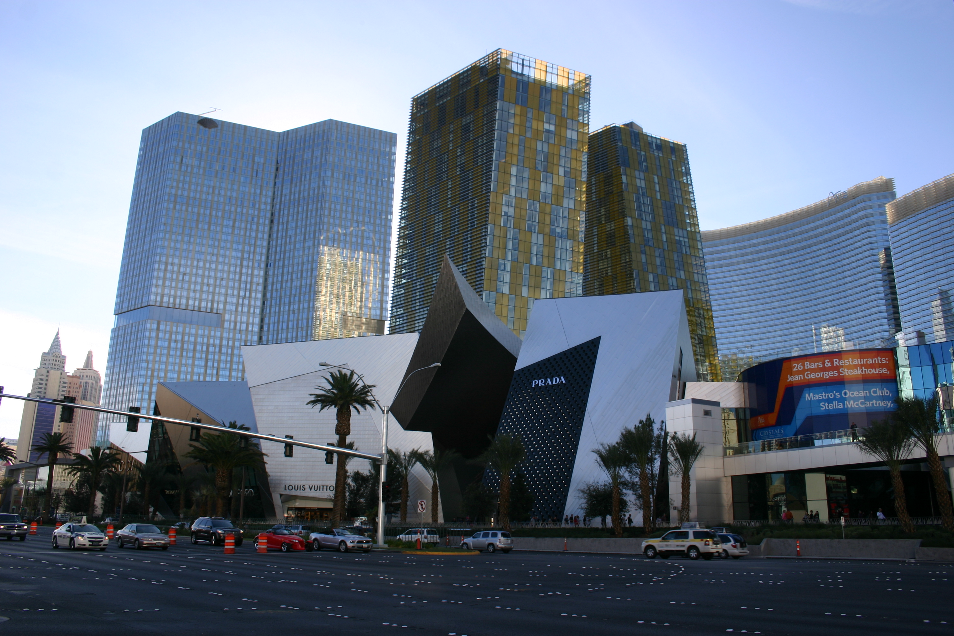 Looking west at CityCenter from across the strip.